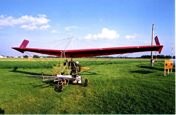 I took this photo of a DFE Ascender III-C in 2004.